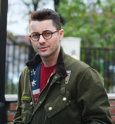 Akcent in Bucharest